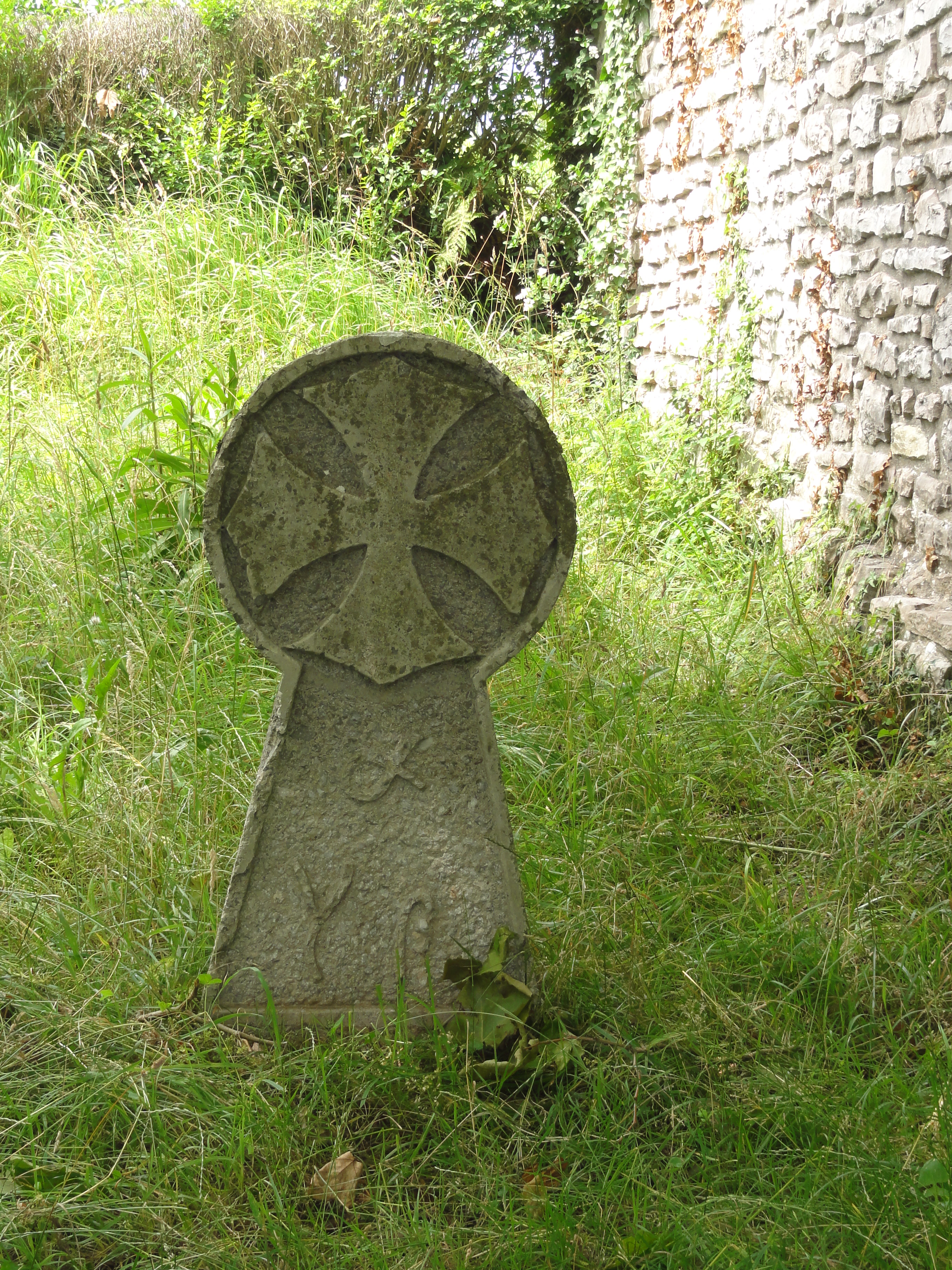 Hondarribia (Biscaye), basque stele aside ermita Santiago